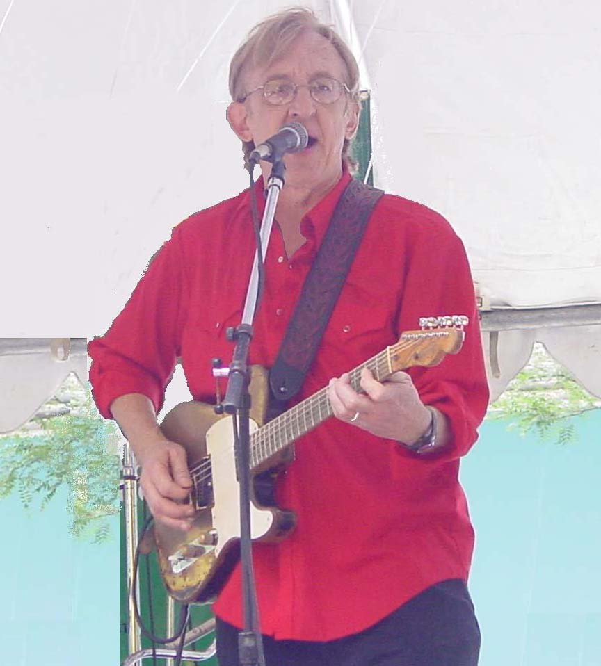 David Thrower, Shirlington Virginia 2003